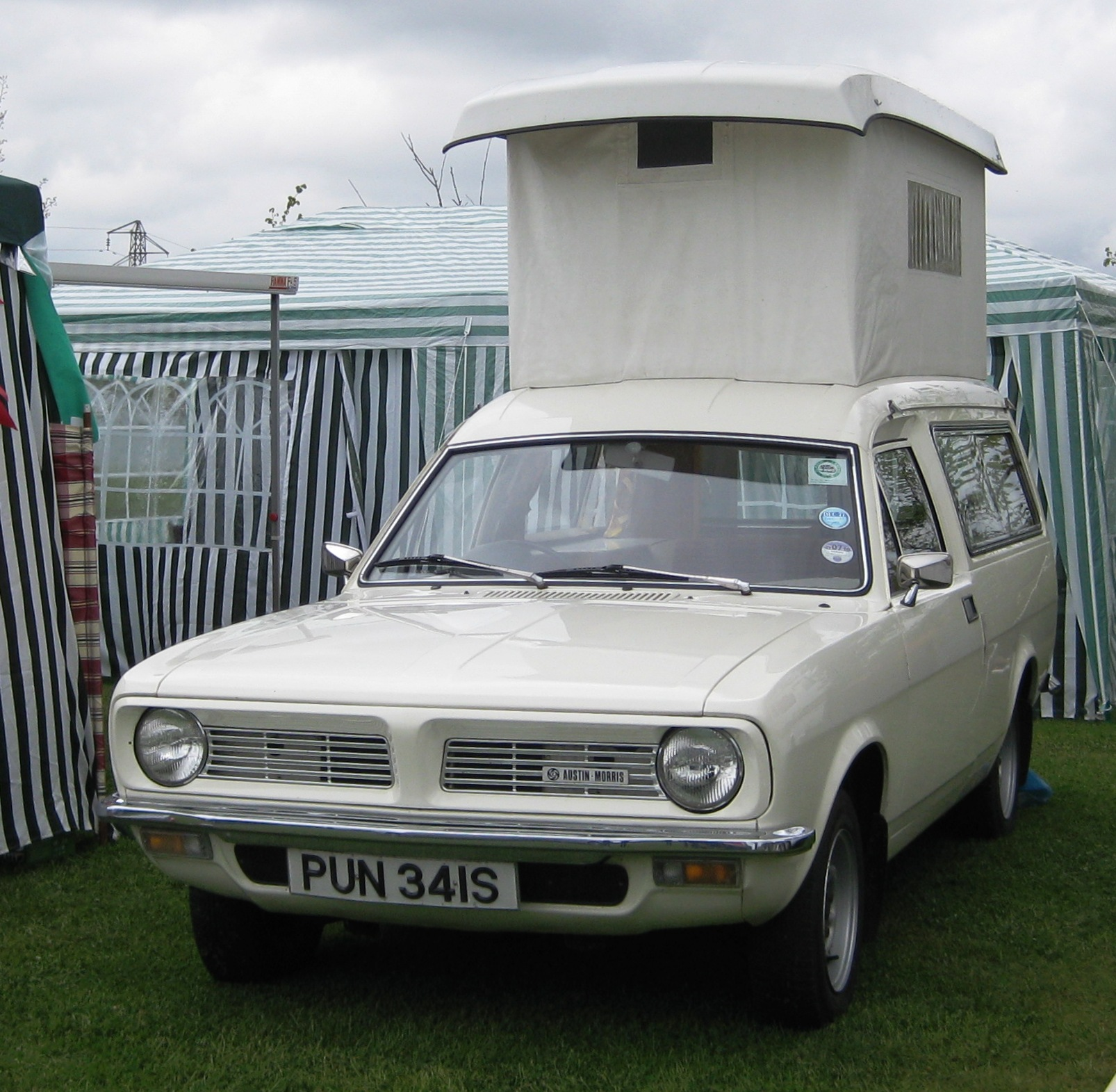 Austin-Morris 1300 van converted into a motor caravan